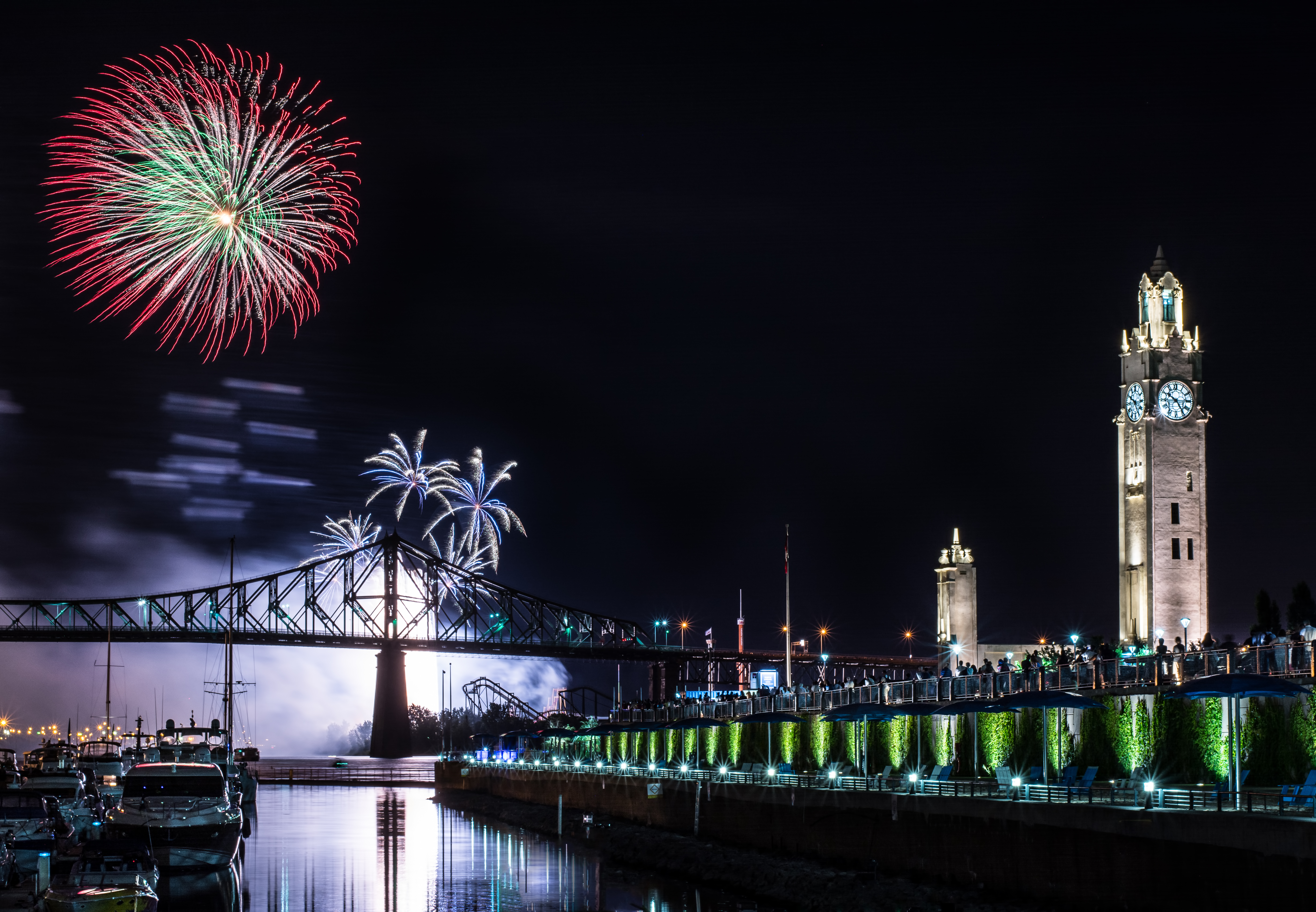 View of the Clock Tower, located on the headpier of Quai de l'horloge, in Montreal's Old Port, during a fireworks display. Also, view to the Jacques-Cartier Bridge.